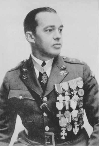 Richard W. O'Neill, World War I recipient of the Medal of Honor. In addition to the Medal of Honor as worn around his neck, his other awards include (top to bottom, left to right): New York State Conspicuous Service Cross, French Military Medal, Romanian Order of the Star with swords and the ribbon of the Military Virtue Medal (to denote bravery in action), World War I Victory Medal (with five battle clasps), Italian Cross of War, Mexican Border Service Medal, Montenegrin Medal for Military Bravery, French Croix de guerre with bronze palm and stars, Portuguese Military Order of Avis, New York State World War Service Medal, Serbian Order of the White Eagle with swords, New York State Mexican Border Service Medal.